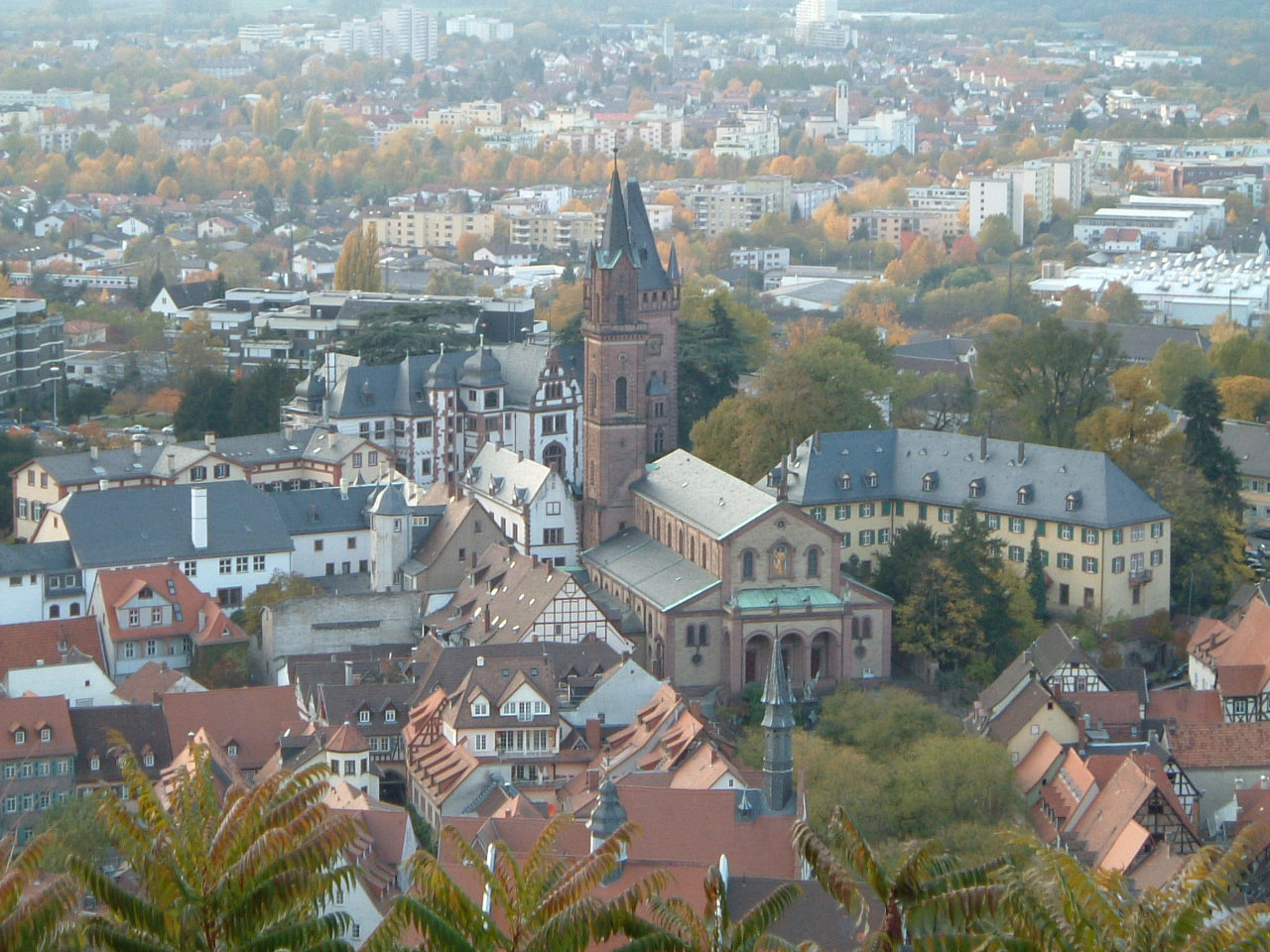 License: GFDL I have photographed this picture myself.